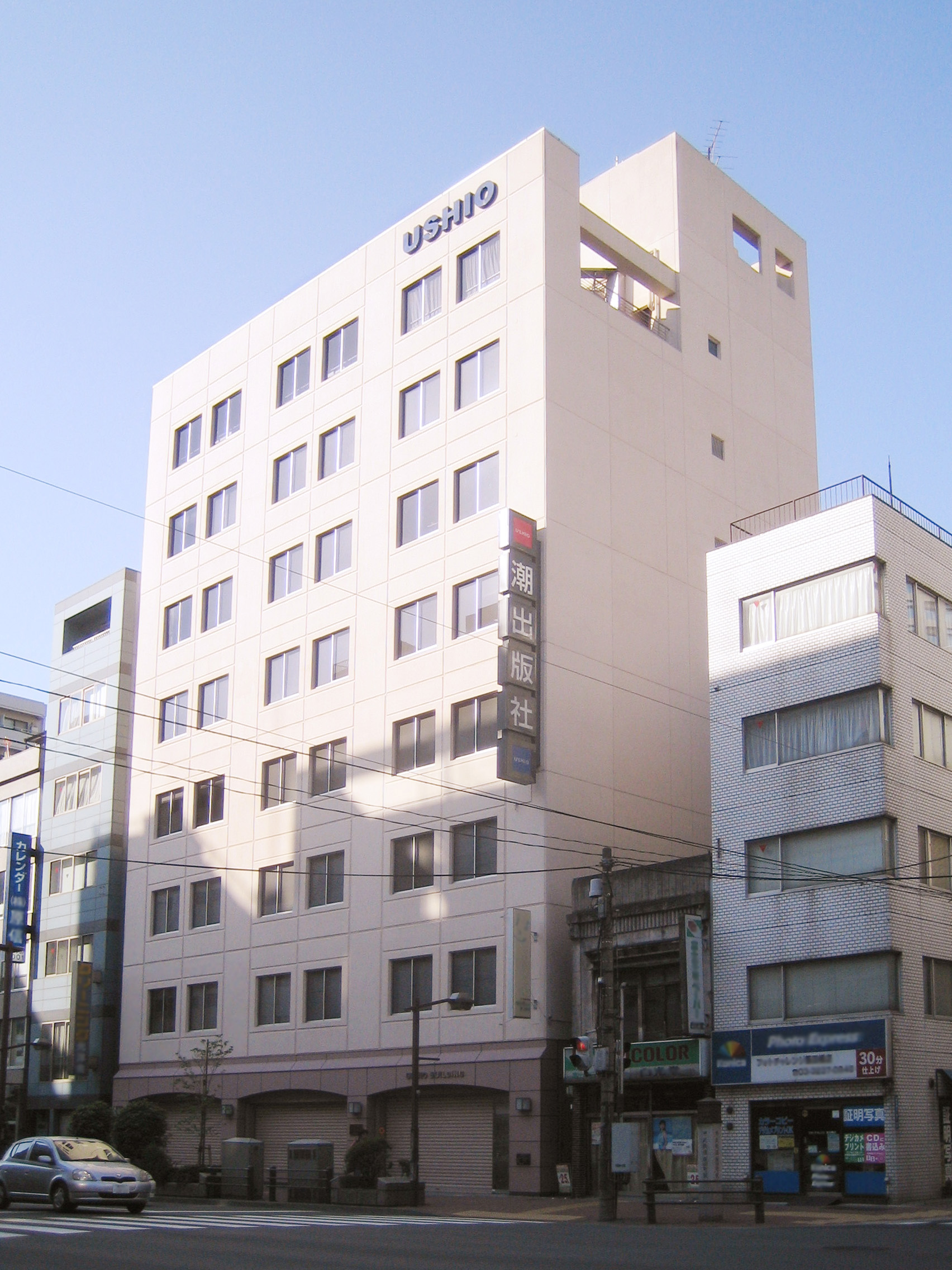 Ushio Publishing (潮出版社 Ushio Shuppansha), in Chiyoda, Tokyo, Japan